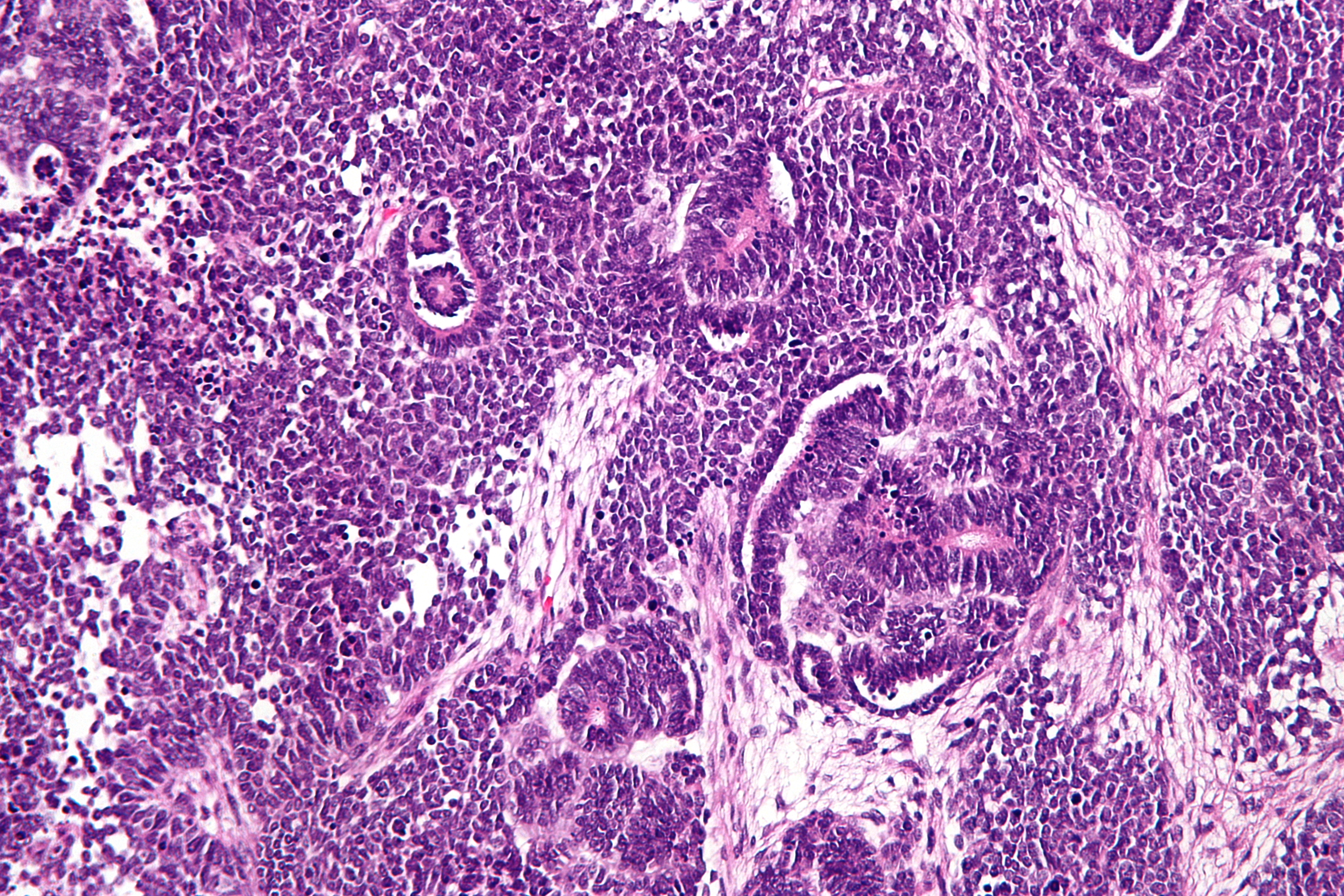 High magnification micrograph of a Wilms' tumour, also nephroblastoma and Wilms tumour. Surgical excision. H&E stain. Wilms tumour is a type of kidney cancer that is seen predominantly in children. The images show the characteristic three components: Malignant small round (blue) cells ~ 2x the size of resting lymphocyte (blastema component). Tubular structures/rosettes (epithelial component). Loose paucicellular stroma with spindle cells (stromal component). Related images Low mag. Intermed. mag. High mag. Very high mag.